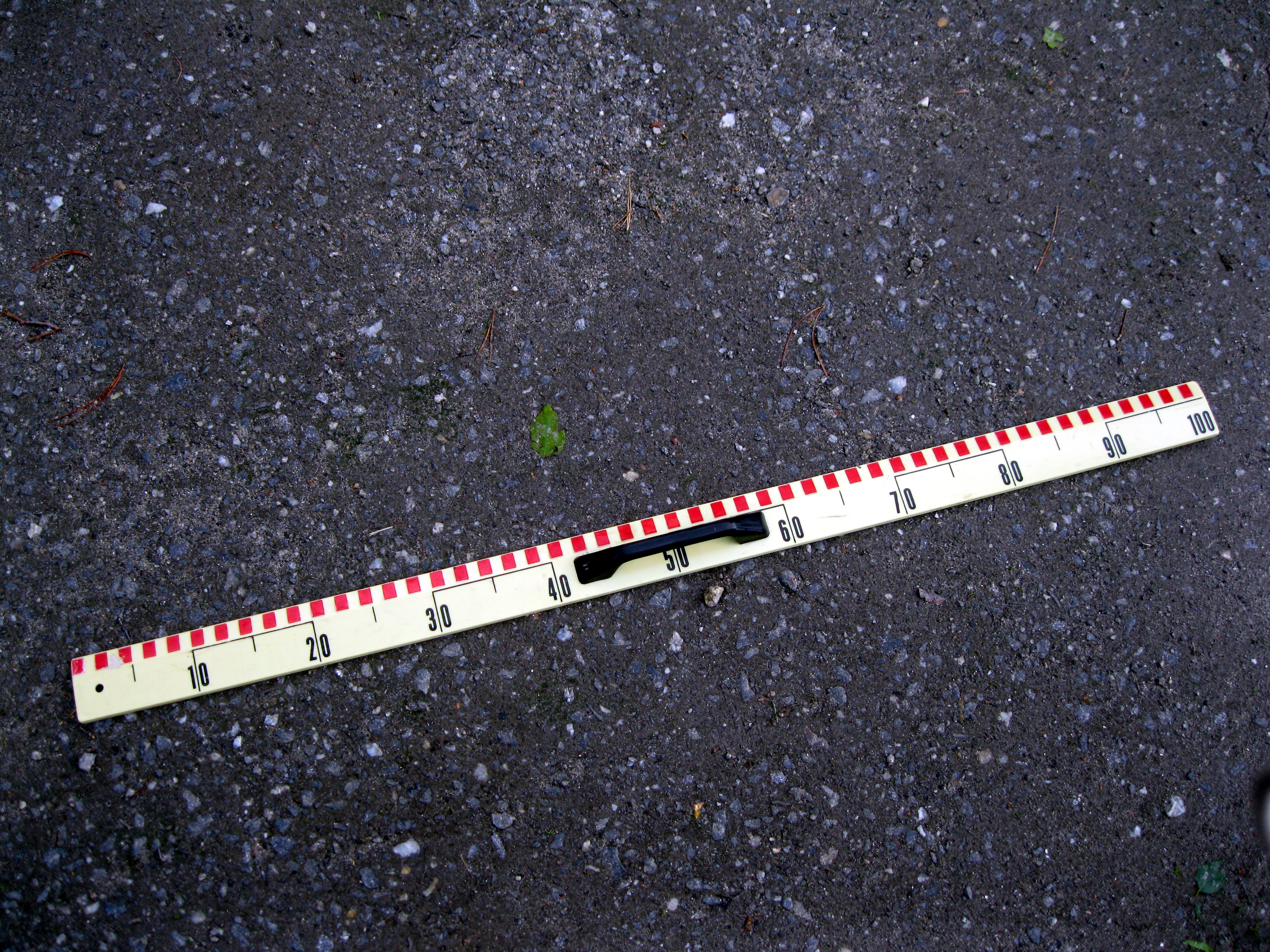 Metre (100 cm) measure.